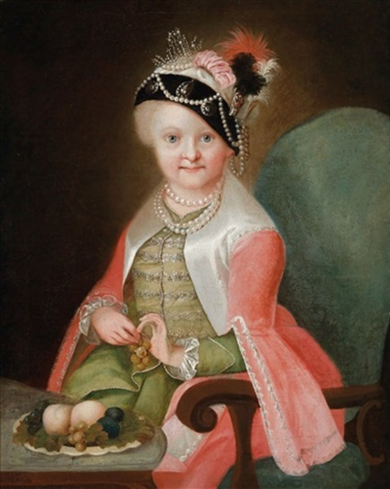 Portrait of Maria Josepha of Austria (1699-1757) in Hungarian costume